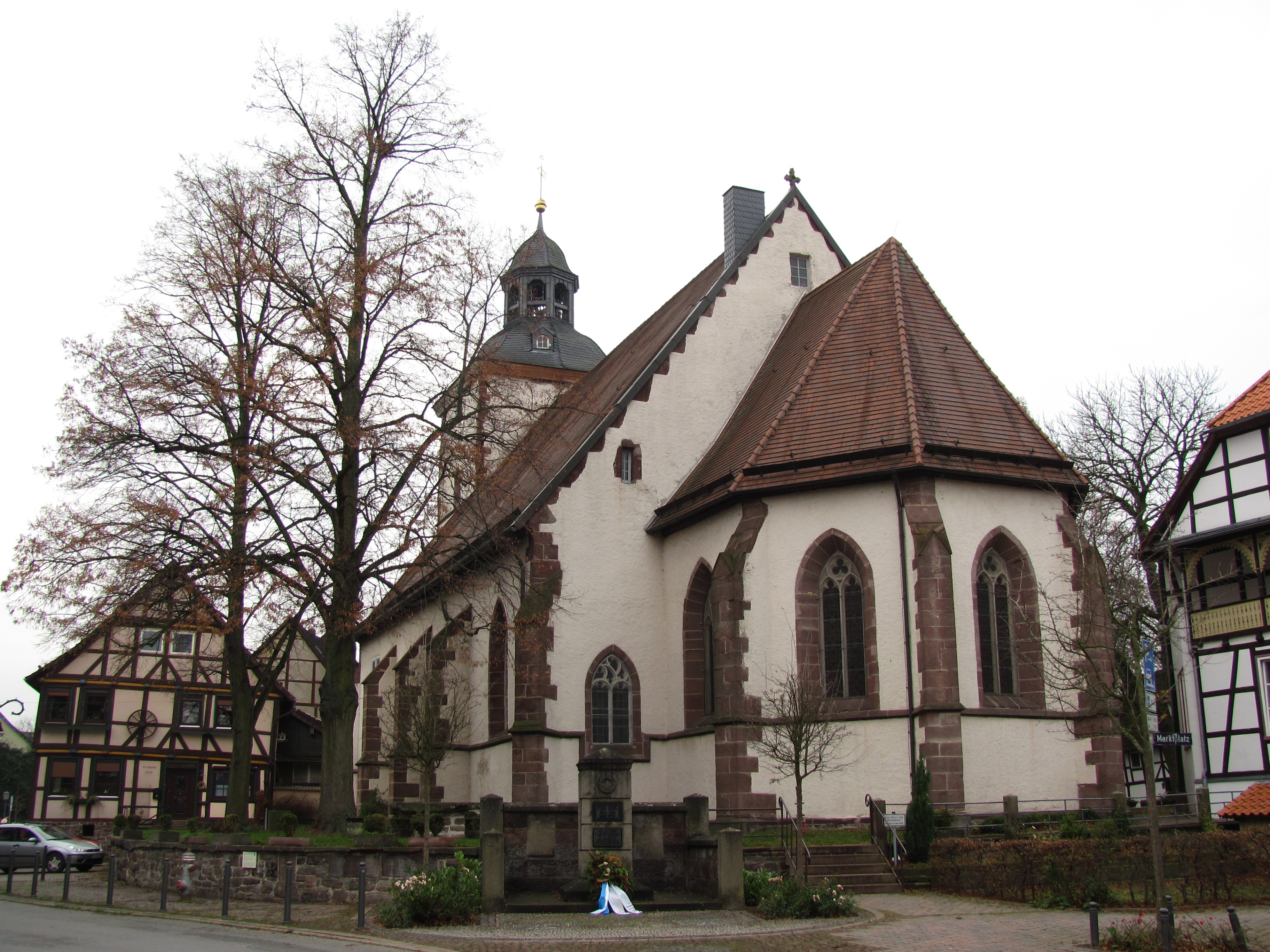 Saint Laurentius Church, Dassel, Germany.